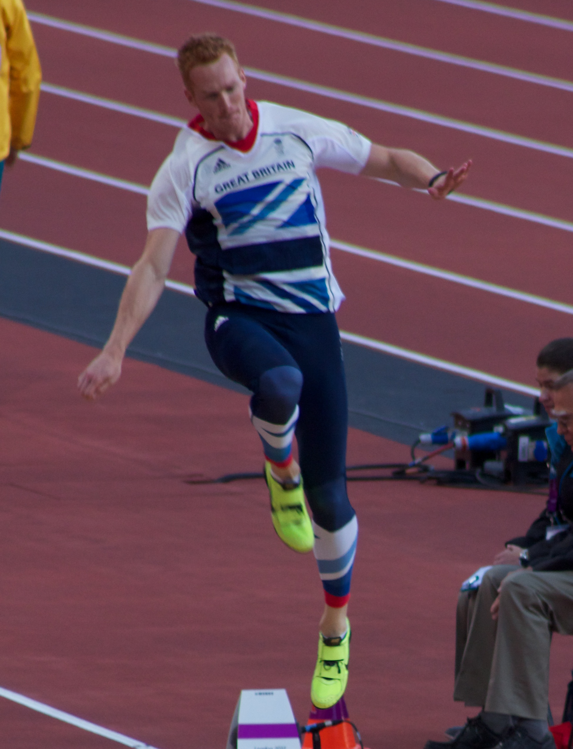 Long Jump Final - Greg Rutherford